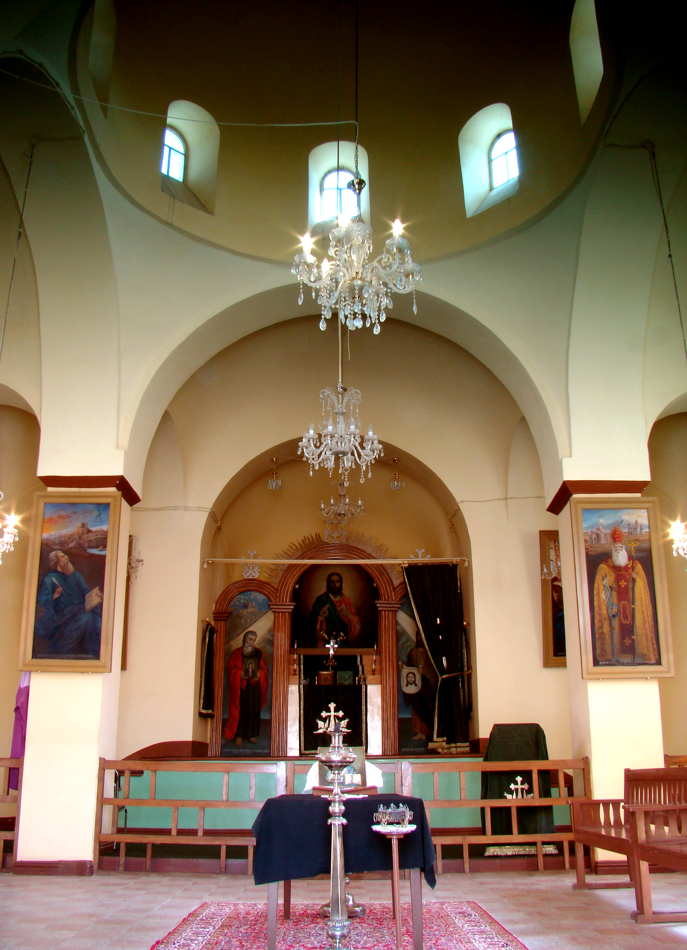 Insert plan of Shogaghat Church - Tabriz